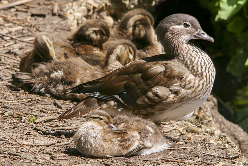 A Mandarin Duck mother duck with her ducklings in Grovelands Park, London.